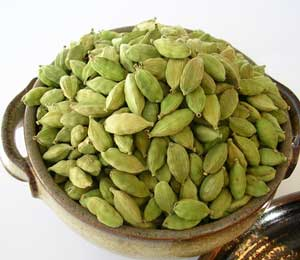 Green cardamom, spice of Anakkara